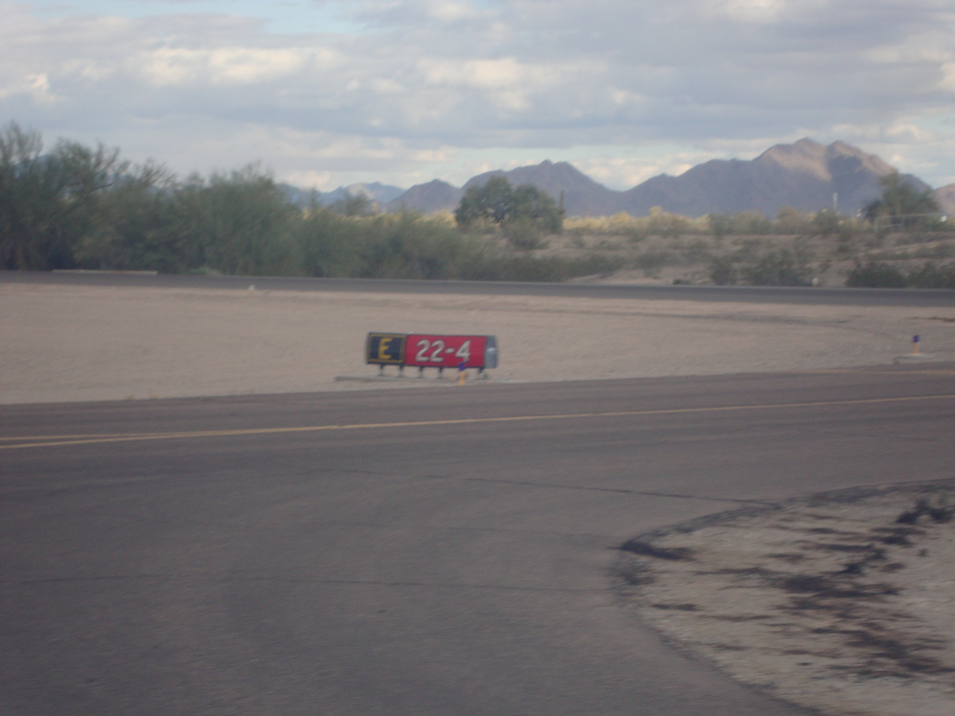 Taxiway Echo